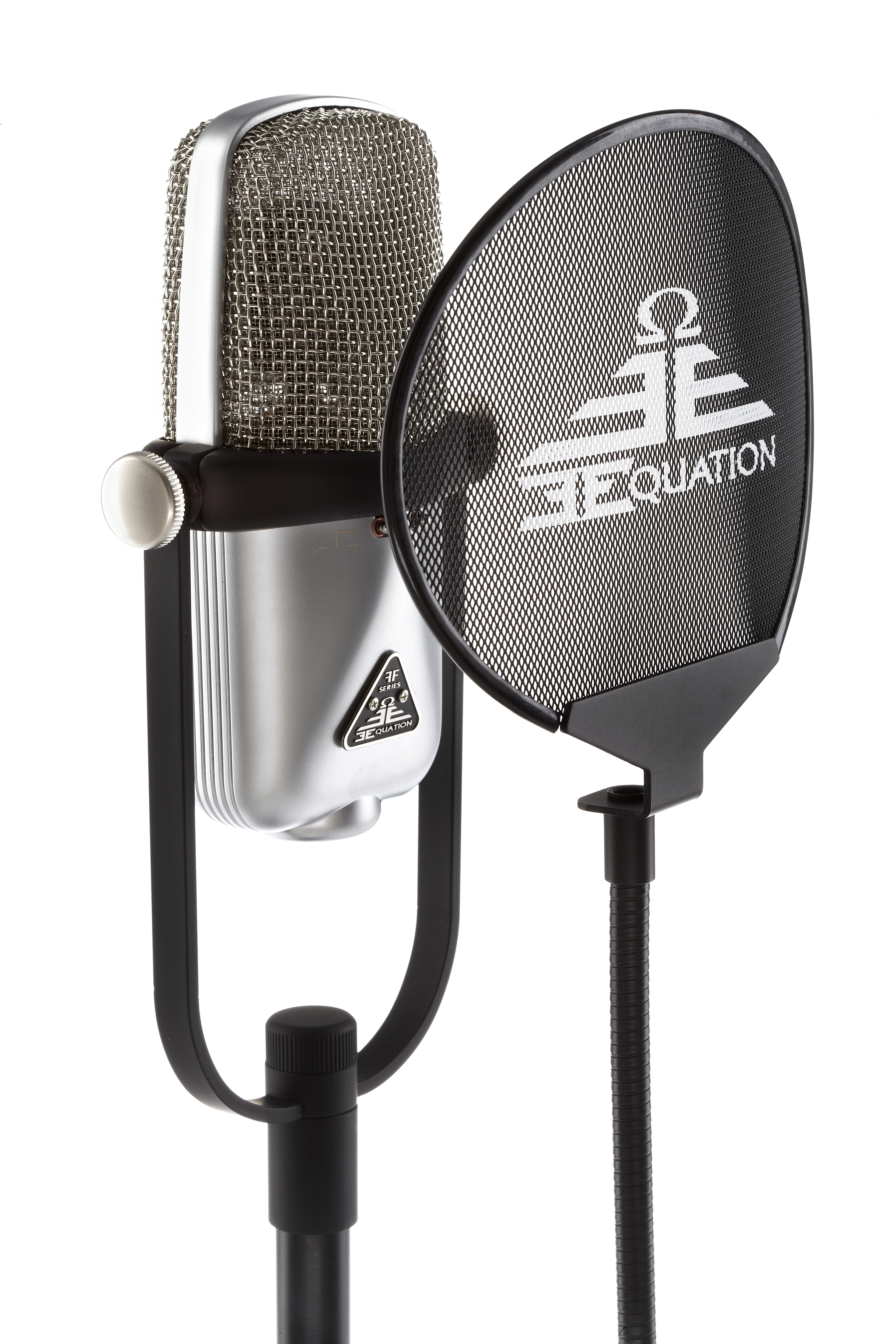 Studio microphone Equation Audio F.20